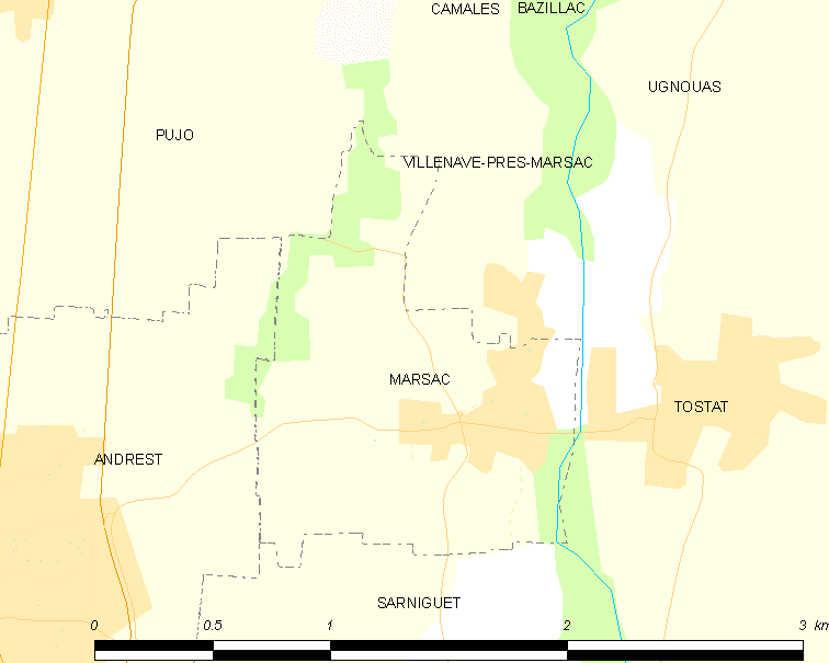 Map of French municipality